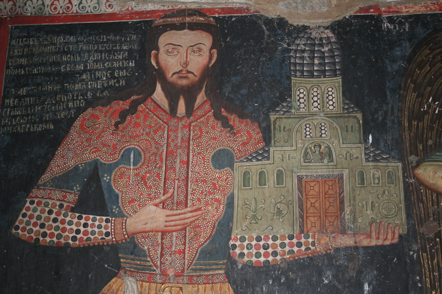 Frescos in St. Michael the Archangel Church in Lesnovo, Macedonia